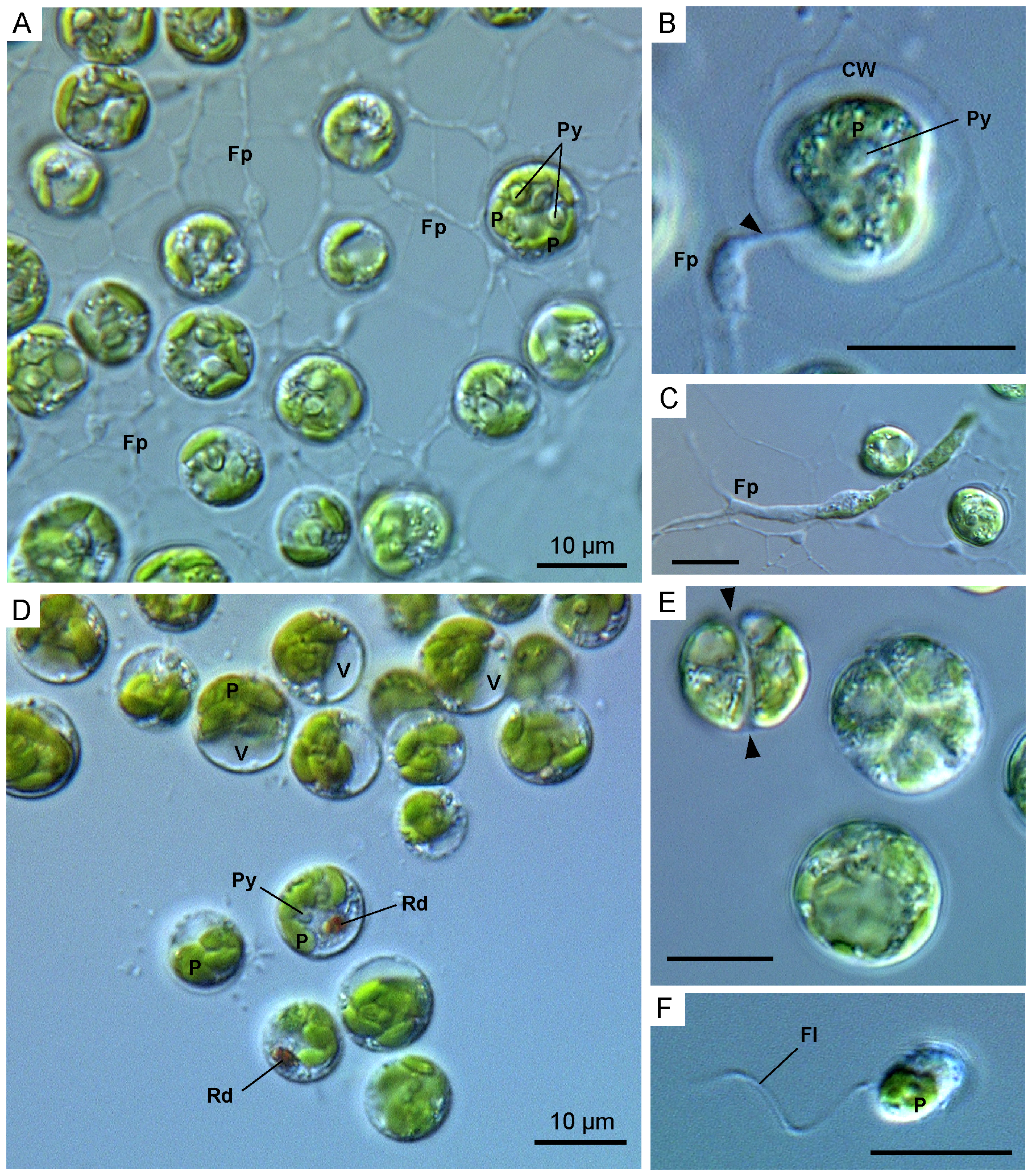 Culture Strain of a Chlorarachniophyte, Lotharella globosa. Differential interference contrast (DIC) micrographs of LEX01 strain. (A). Walled amoeboid cells in a fresh culture (3 days after the cells were transferred into new medium). (B). A walled amoeboid cell extending a filopodium through a pore of the cell wall (arrowhead). (C). Migrating amoeboid cell. (D). Walled coccoid cells in two weeks old culture. (E). Binary and quaternary cell divisions. Arrowheads indicate the parental cell wall. (F). Flagellate cell with a single flagellum and plastid. Scale bars are 10 µm. CW, cell wall; Fp, Filopodium; Fl, flagellum; P, plastid; Py, pyrenoid; Rd, reddish particle; V, vacuole.